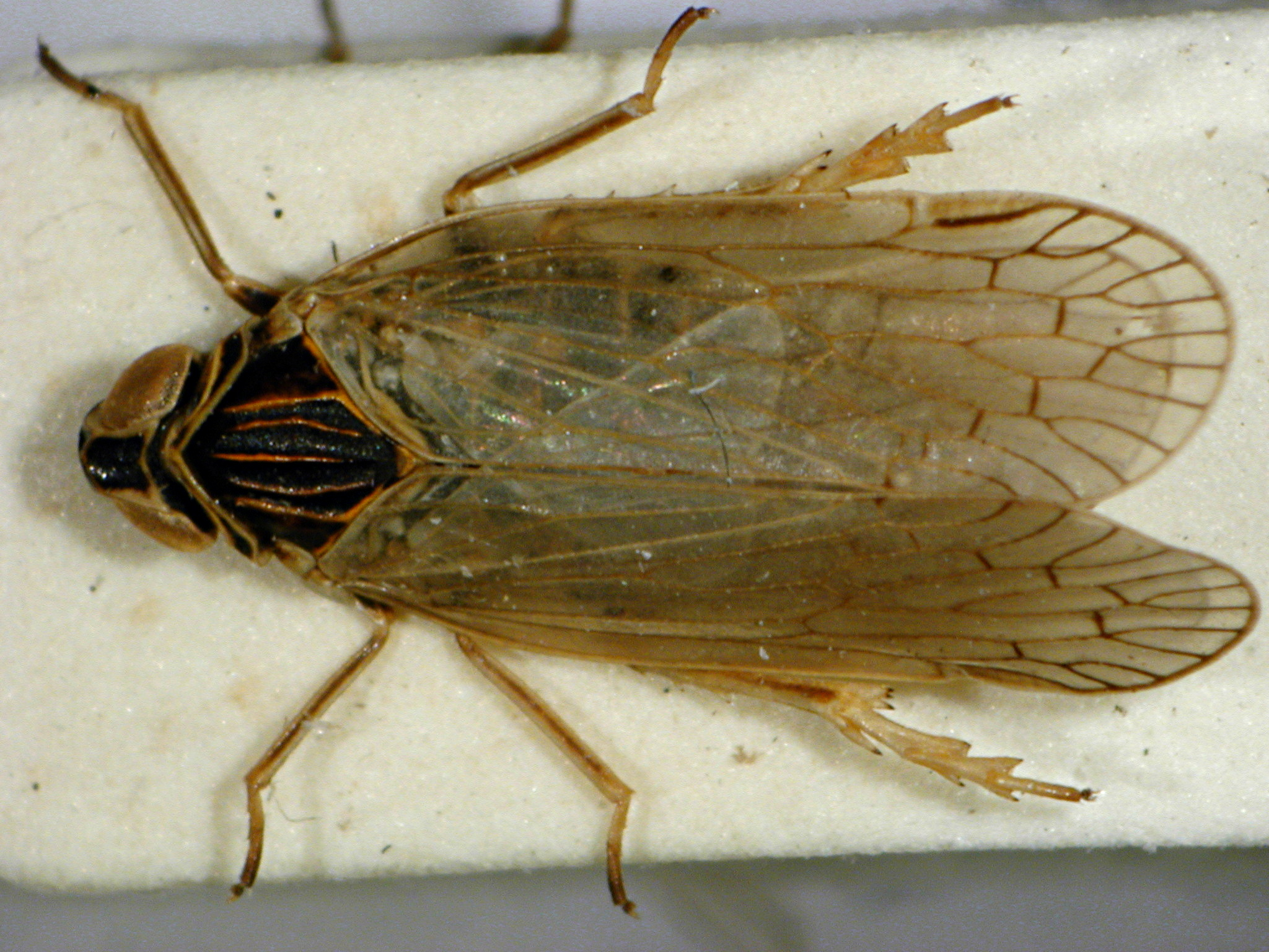 Pentastiridius leporinus; (Linnaeus, 1761)